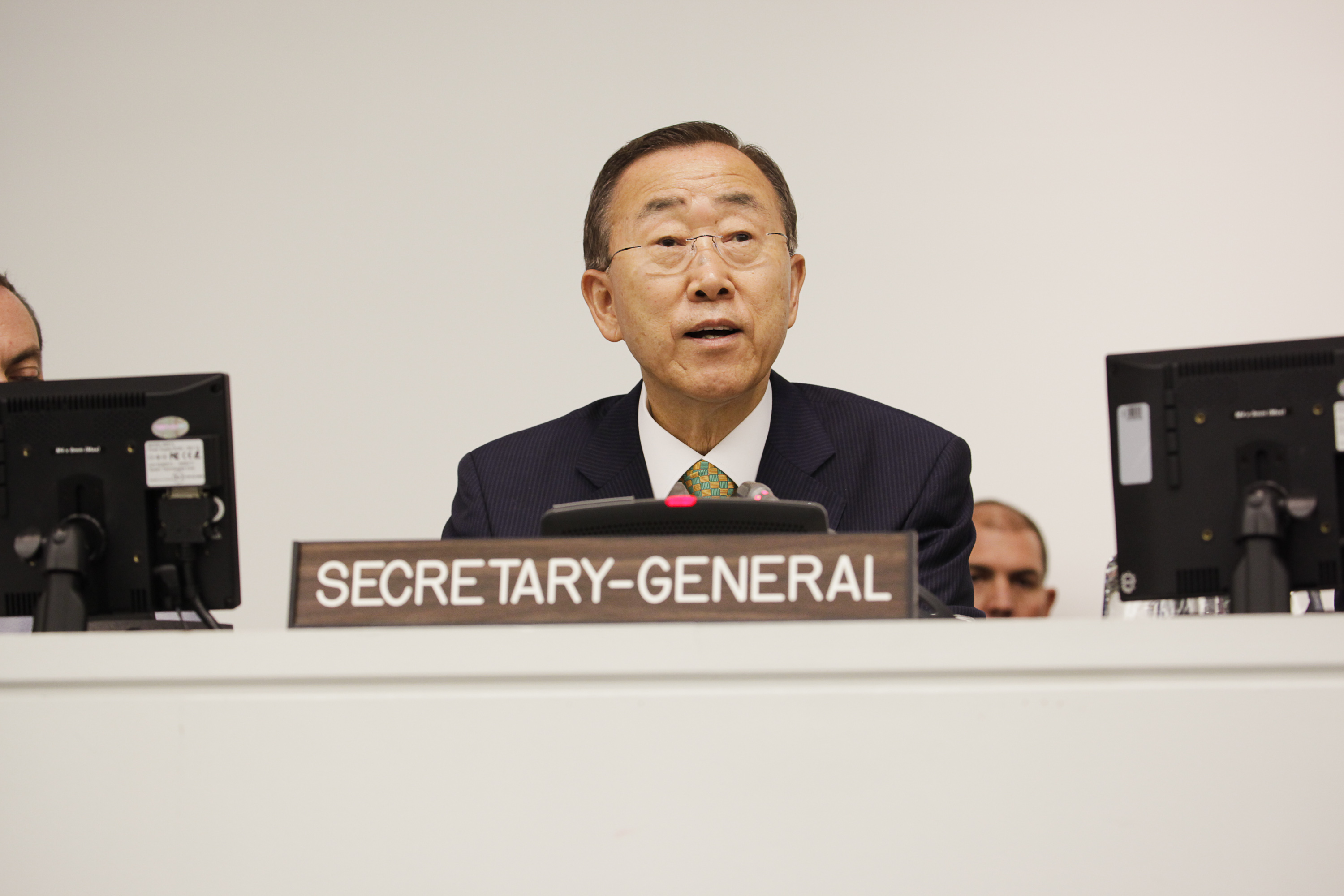 23 September, 2011 - New York UN Secretary-General Ban Ki-moon at the Conference on Facilitating the Entry into Force of the Comprehensive Nuclear-Test-Ban Treaty. Photographer: James Leynse Copyright CTBTO Preparatory Commission